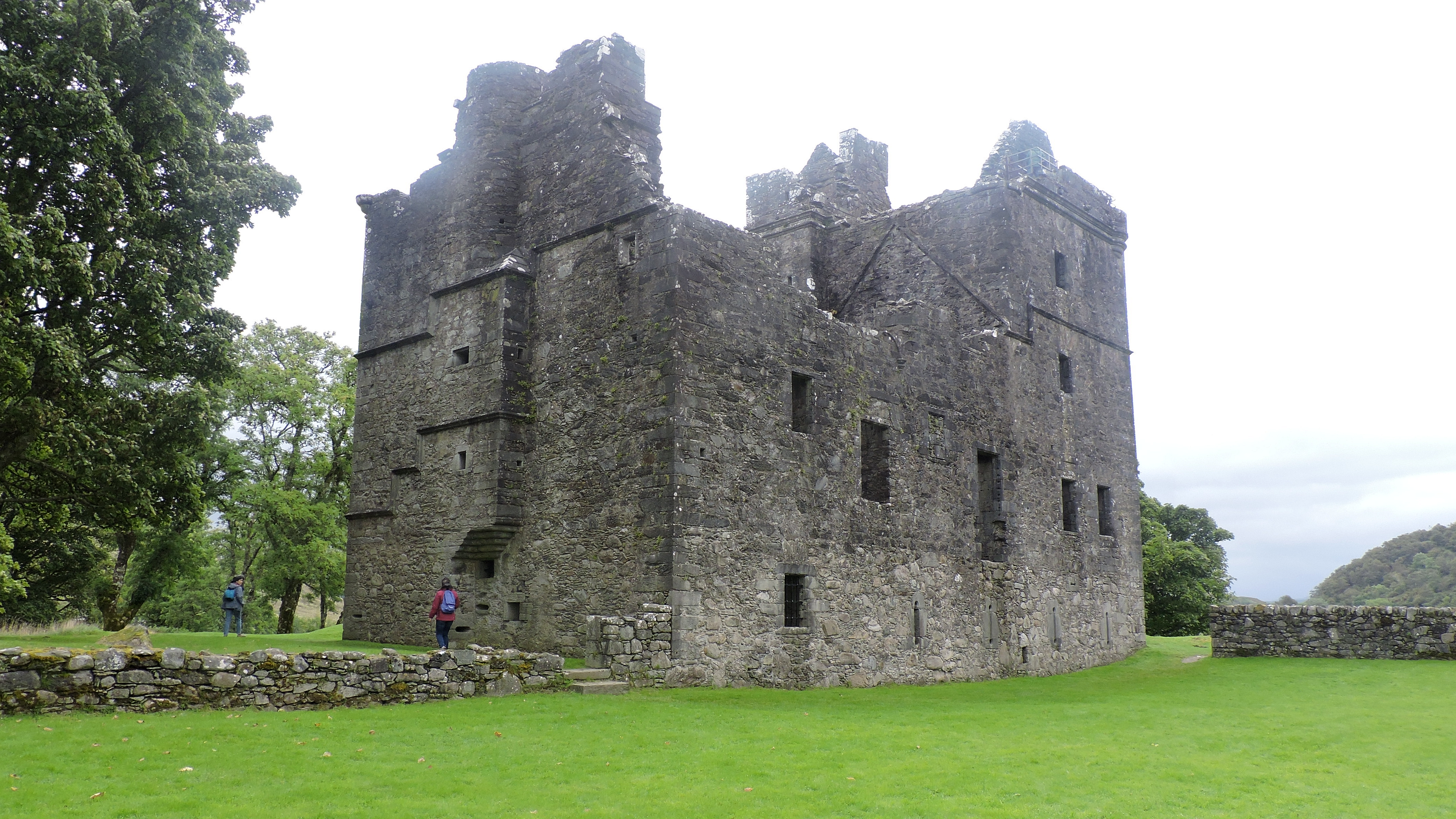 A view of the Carnasserie Castle